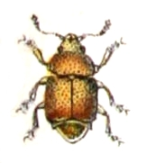 Kateretes pedicularius, from Calwer's Käferbuch, Table 13, Picture 23. Taxonomy was updated to 2008, using mostly the sites Fauna Europaea and BioLib. Please contact Sarefo if the determination is wrong!